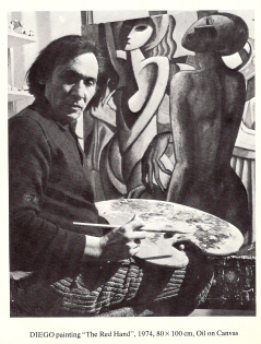 A picture of DIEGO Voci A picture of Diego Voci painting